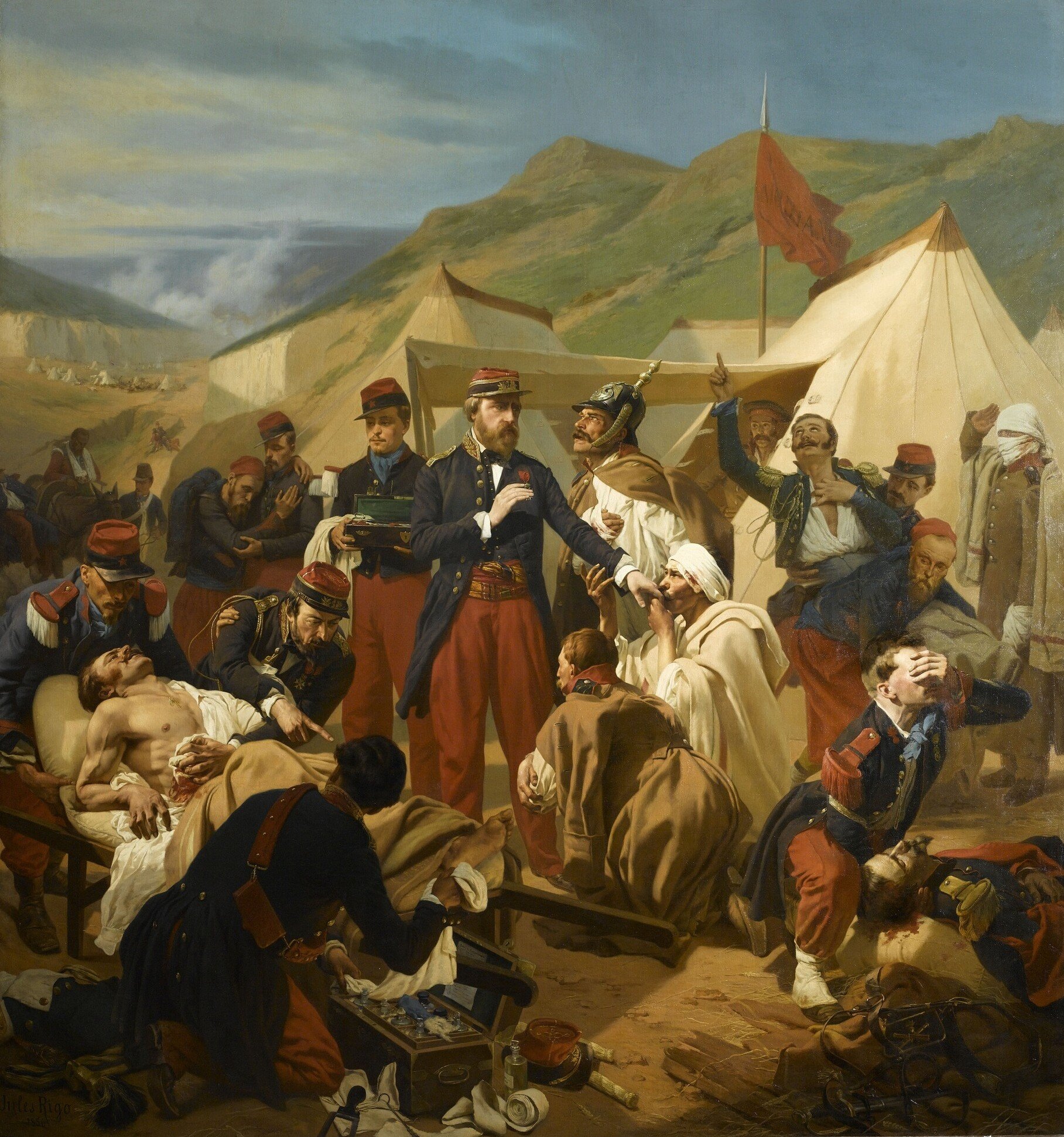 French surgeons treat Russian and Muslim wounded (probably Turks) after the Battle of Inkermann on November 5, 1854. Crimean War (1853-1856).